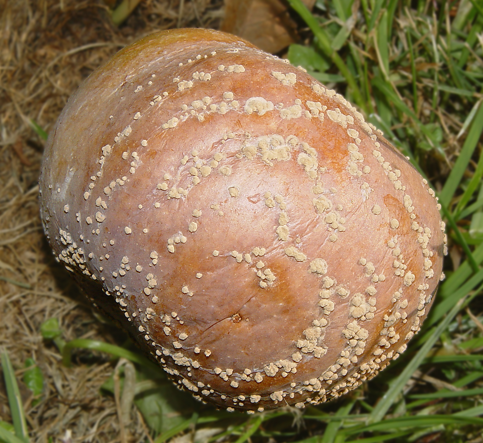 An apple, with fruit bodies of Monilia sp. German description: Ein Apfel mit Fruchtkörpern von Monilia sp.